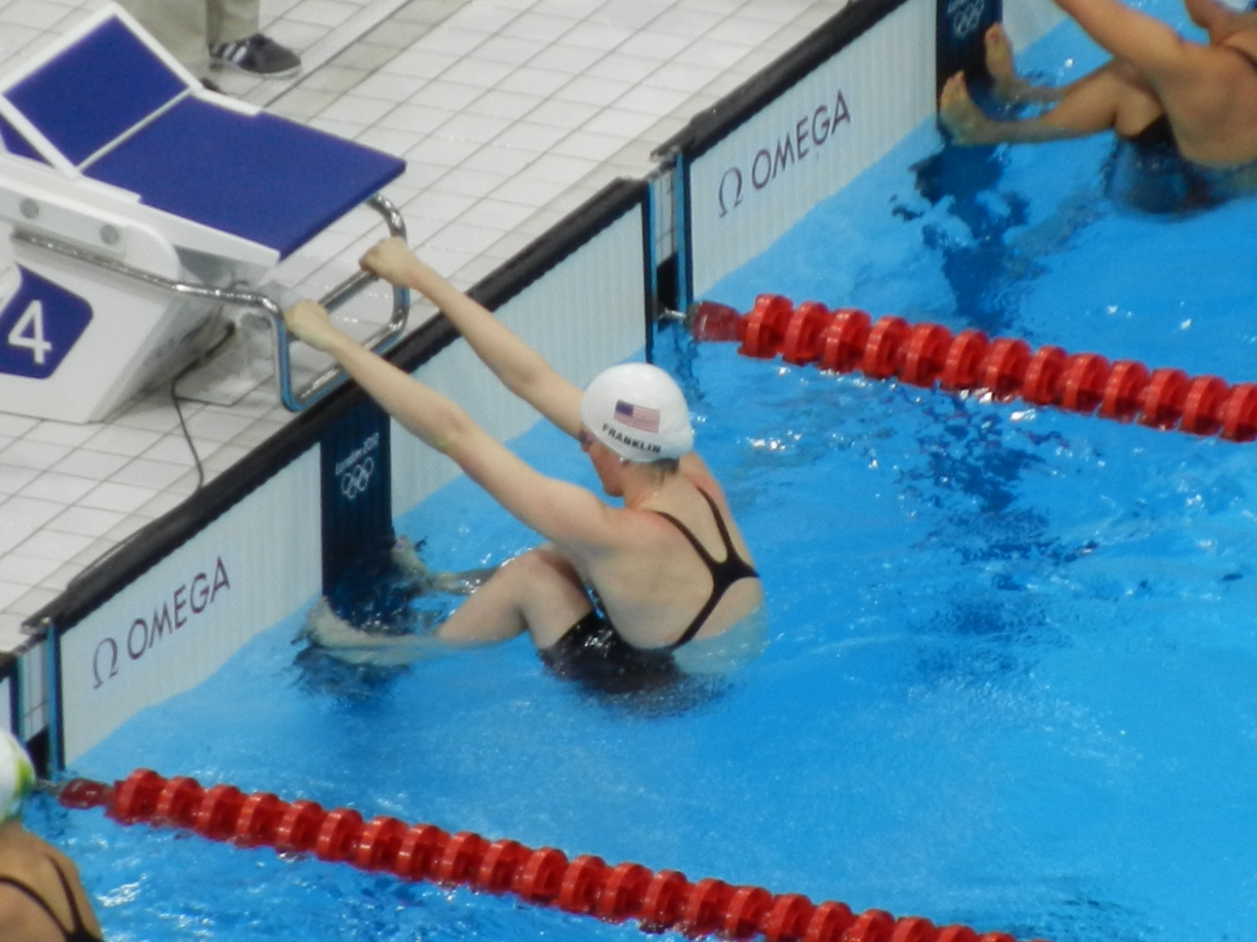 Missy Franklin in preliminary heats for the London 2012 200m backstroke